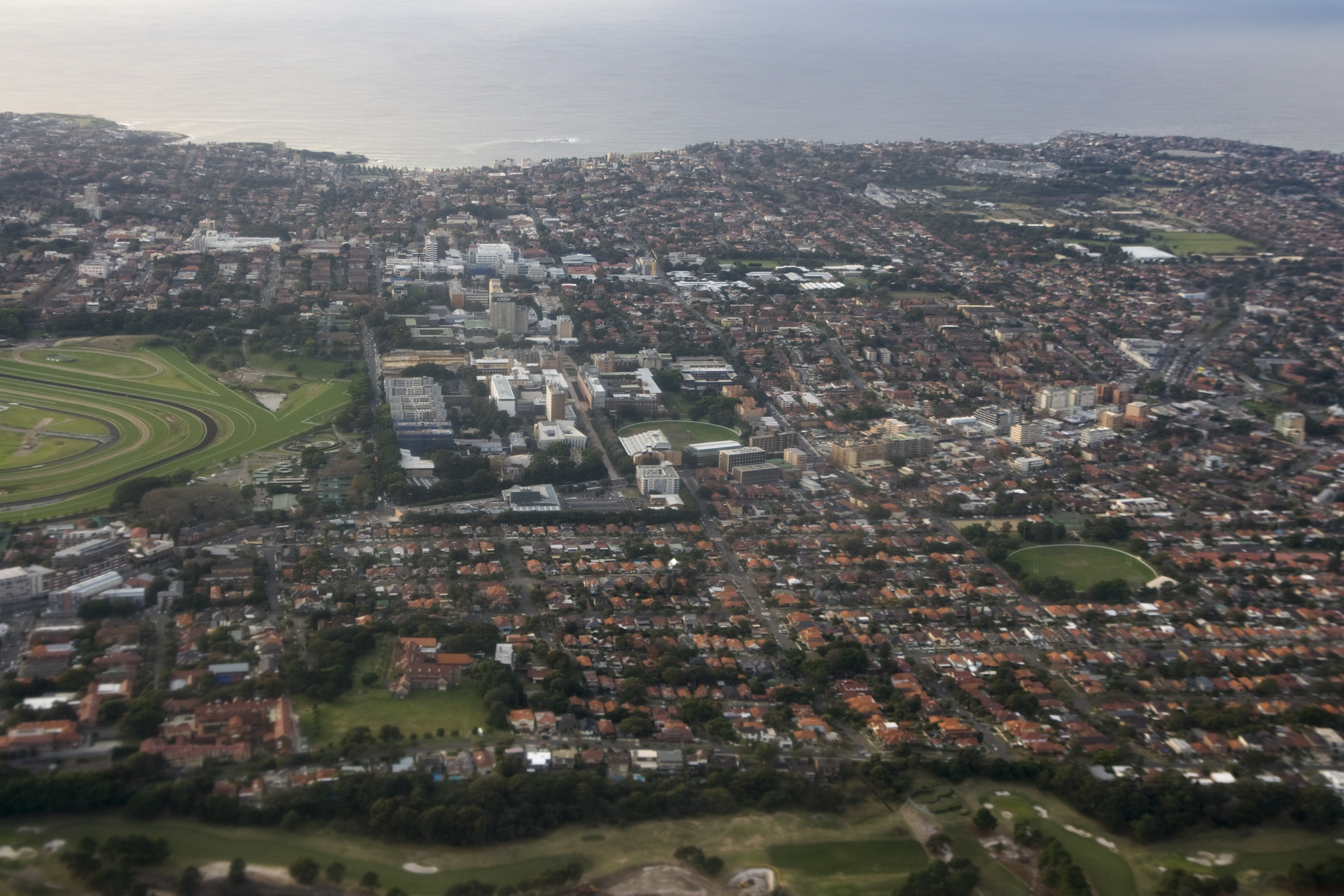 Aerial view of Kensington (bottom half of picture) and Randwick (top half of picture), with Coogee in distance, Sydney, Australia